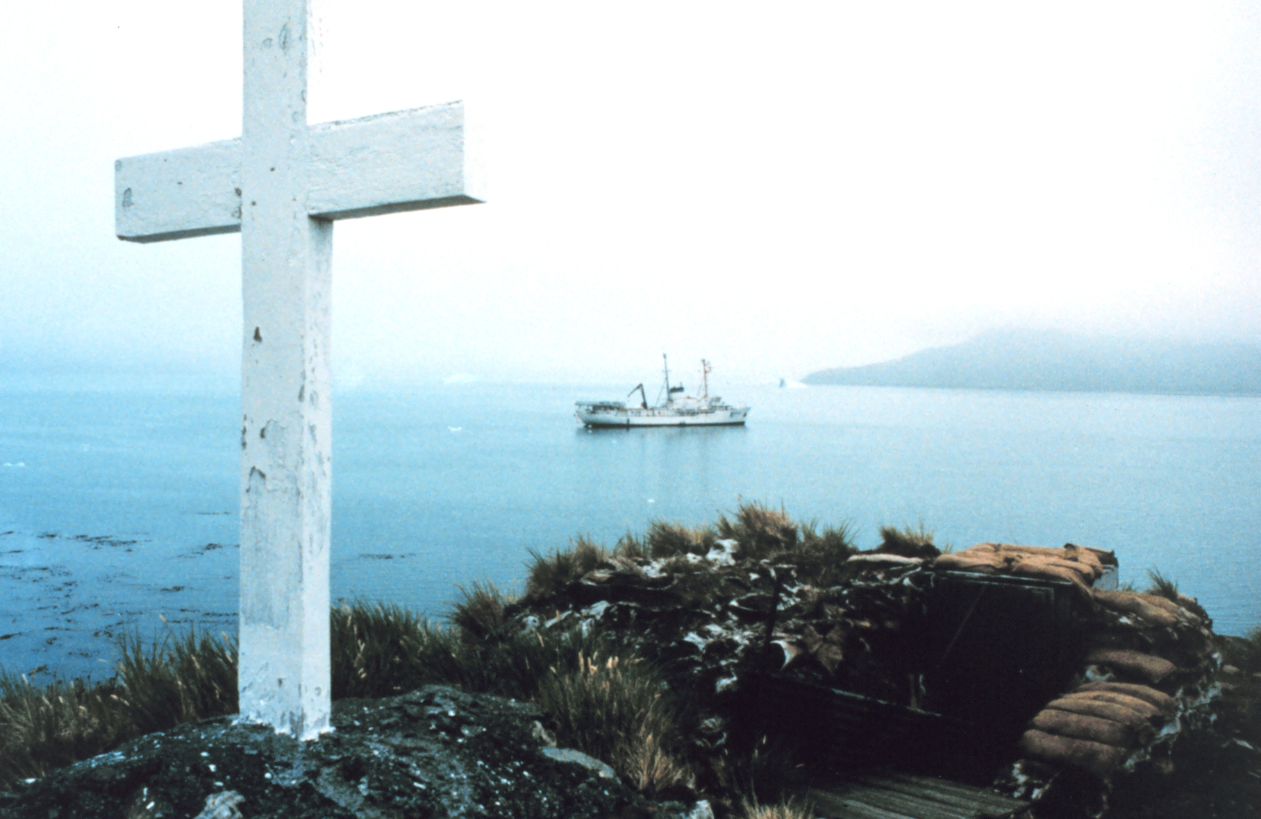 Memorial cross for Sir Ernest Shackleton in Grytviken, South Georgia Island.